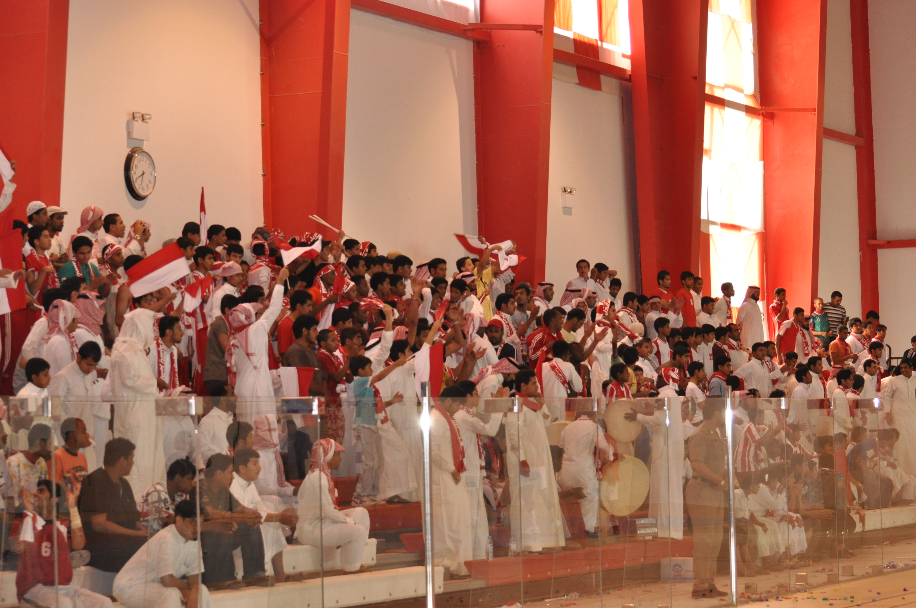 Al-Arabi crowd in indoor dome